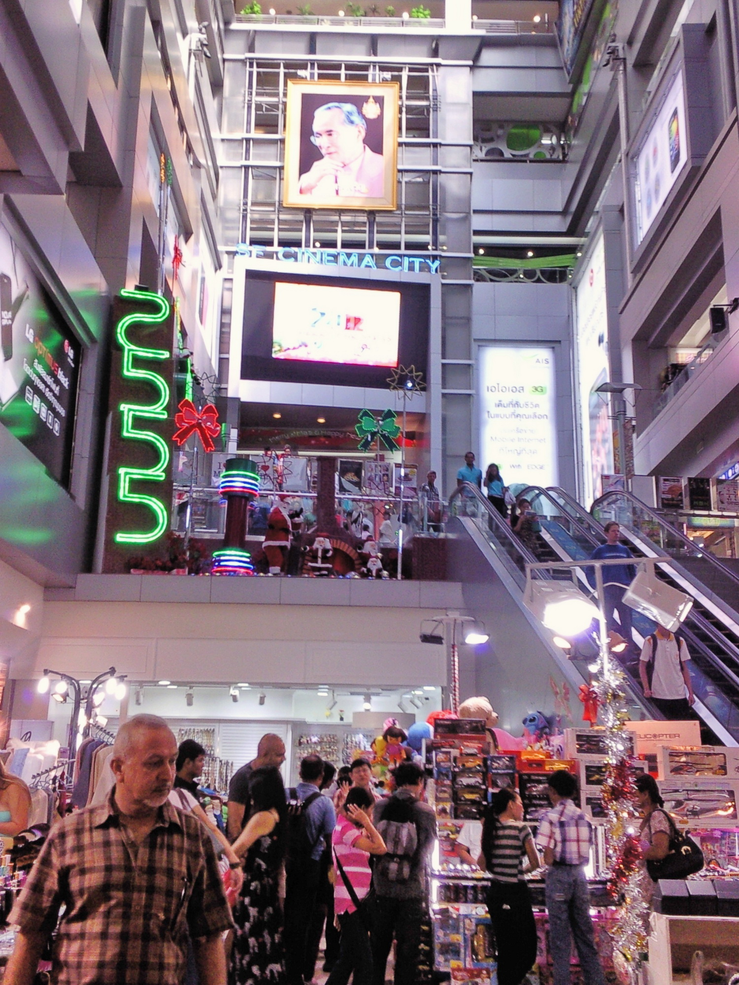 The mall, like many other shopping centers in Bangkok, carries a symbol of the city’s cosmopolitan status as well as its attraction toward the multicultural tourists.